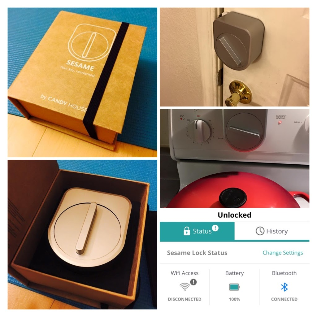 Received an amazing gift today! So proud of you! "OPEN SESAMETtf32 (talk)"